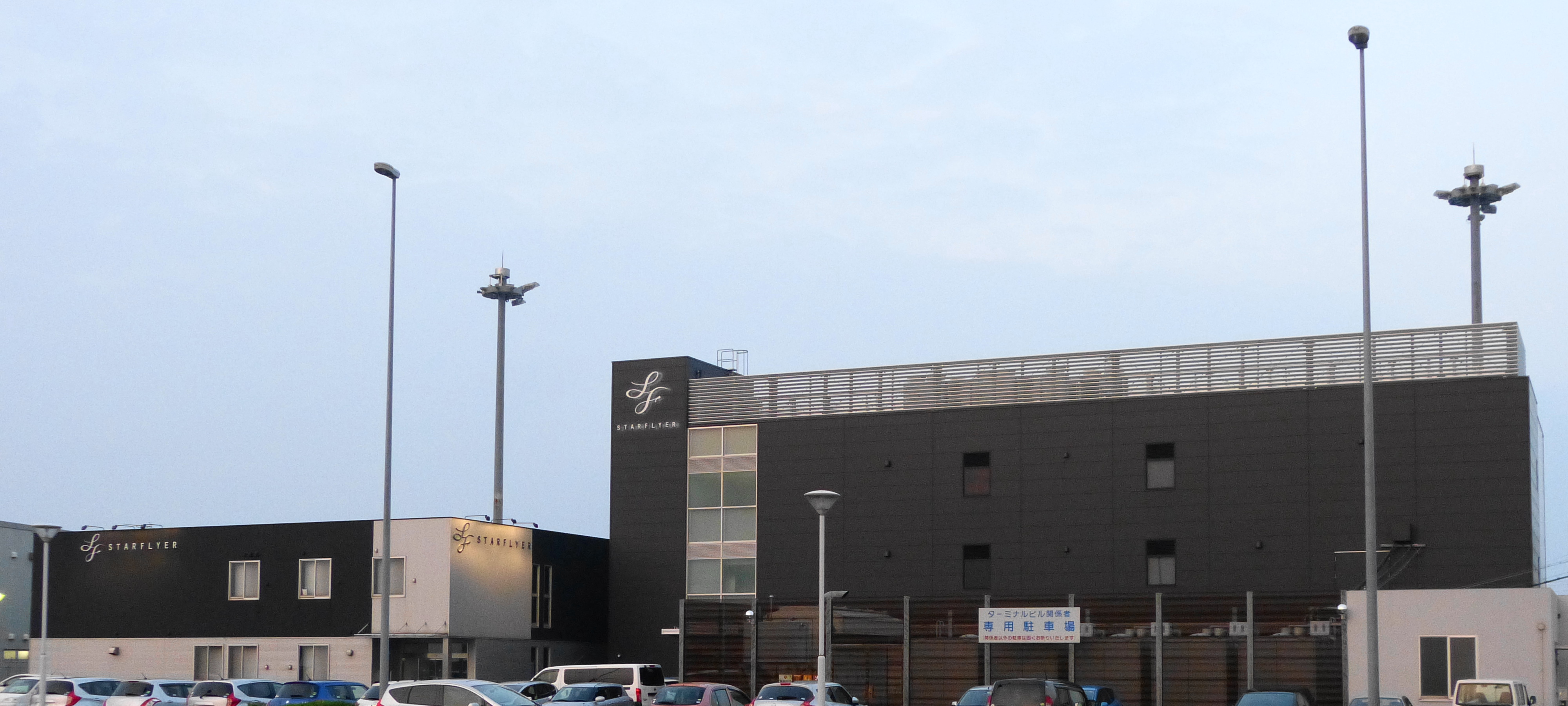 Headquarters of Star Flyer,Fukuoka prefecture,Japan